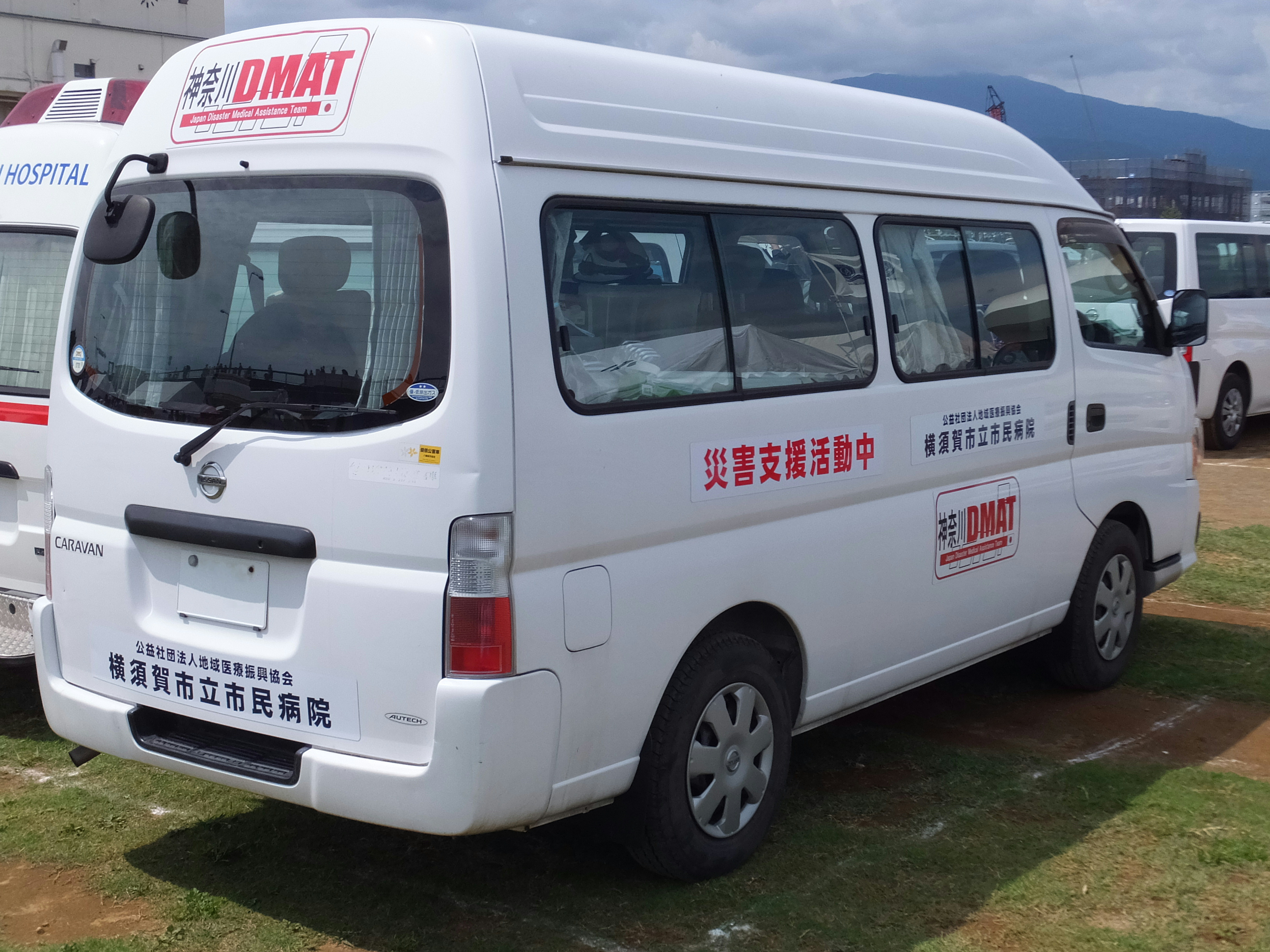 Vehicle of Kanagawa DMAT (Yokosuka City Hospital)